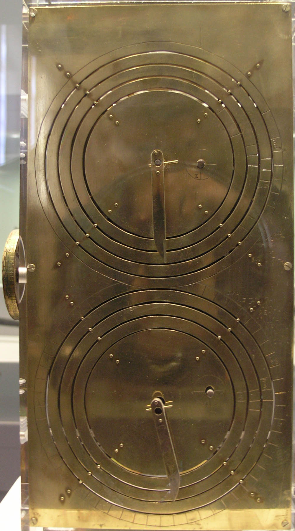 Replica of the Antikythera Instrument: Based on the research of Professor Derek de Solla Price, in collaboration with the National Scientific Research Center "Demokritos" and physicist CH Karakalos who carried out the x-ray tomography of the original. This mechanism has been rebuilt to show the likely operation of the original. Price built a rectangular box of 33 cm X 17 cm X 10 cm with protective plates bearing Greek inscriptions of planets and operational information. The mechanism is a complex set of 32 gears of various sizes, turning at different speeds. The mechanism was offered by Prof. Price to the National Museum in 1980 and remains the reference for the study of the original despite the fact that its construction has been subject to much criticism. National archaeological museum, Athens, number BE 109/1980.